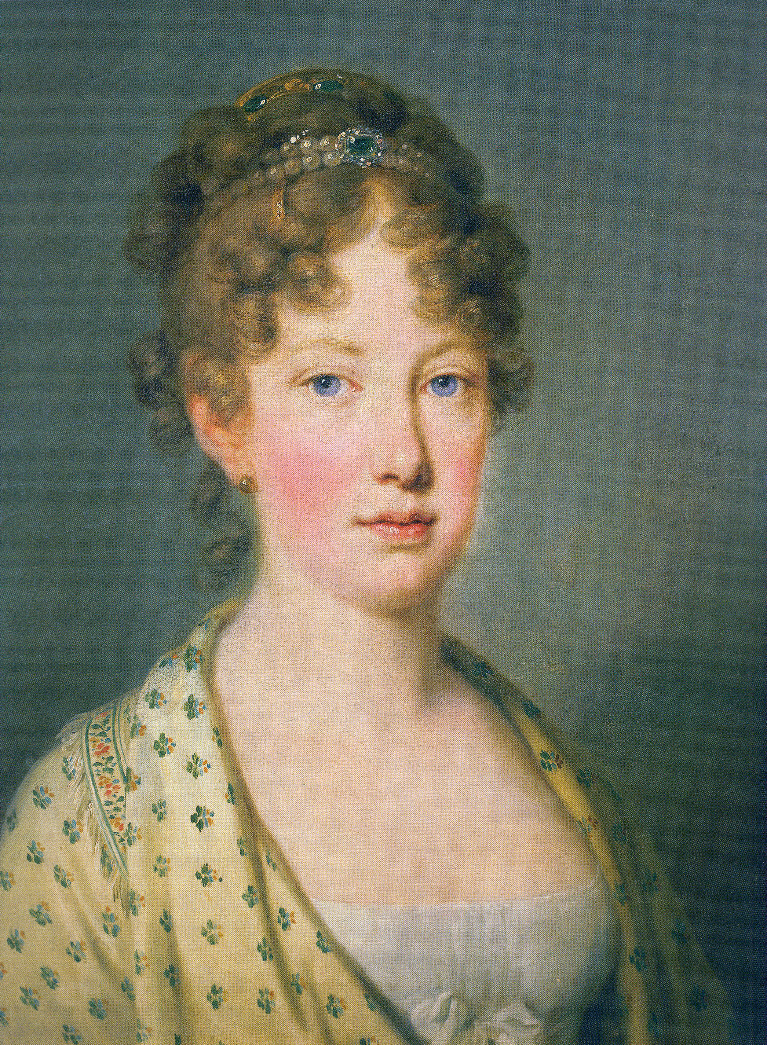 Portrait of Archduchess Maria Leopoldina, later Empress consort of Brazil